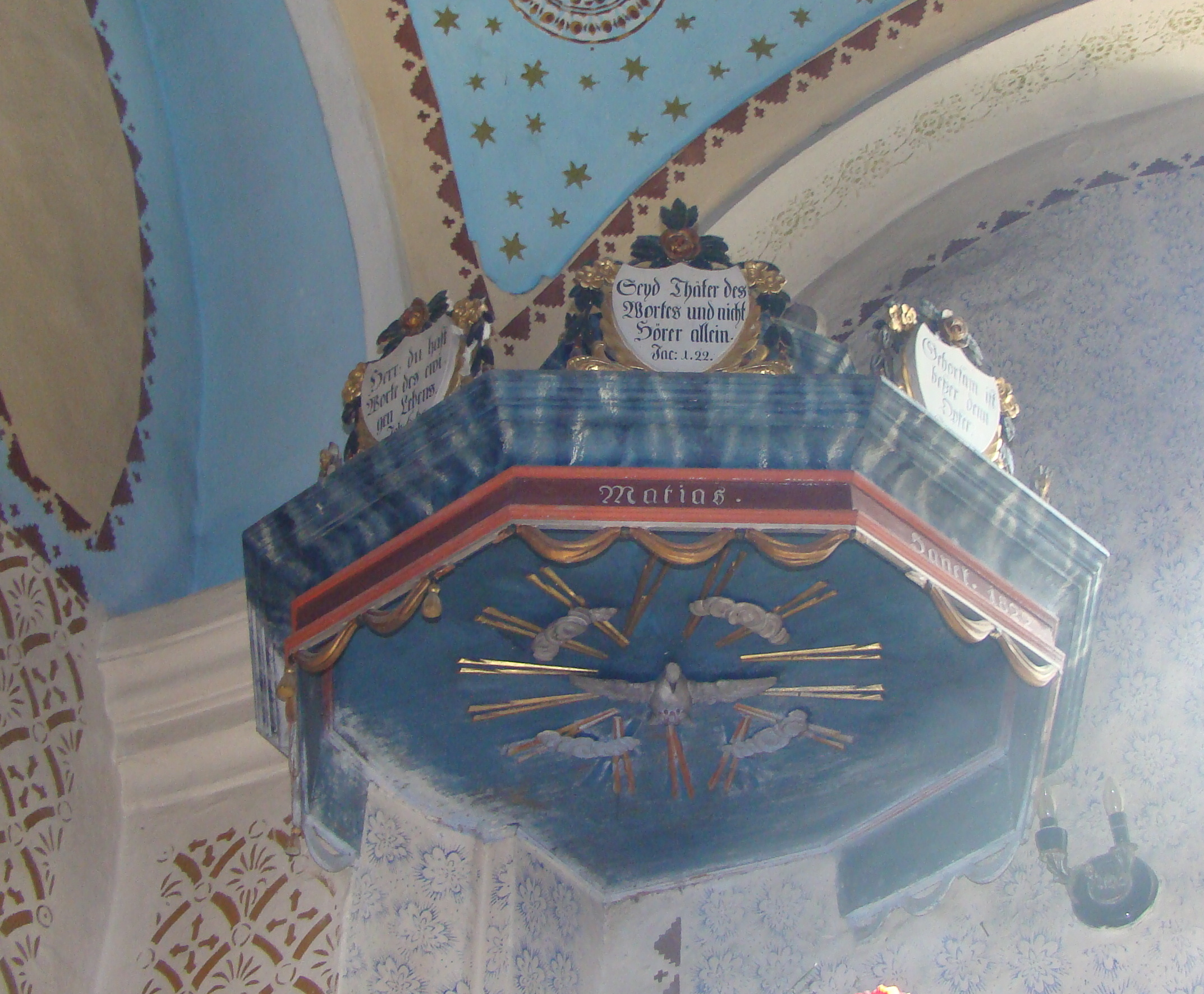 Lutheran church in Slătinița, Bistrița-Năsăud County, Romania